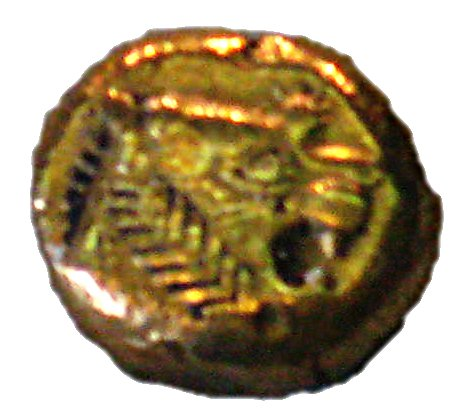 Oldest coin